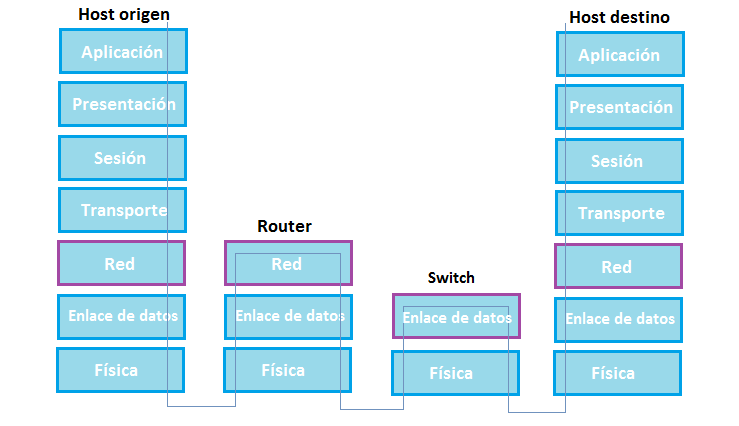 Shows the places in which routers and switches work in the OSI model.